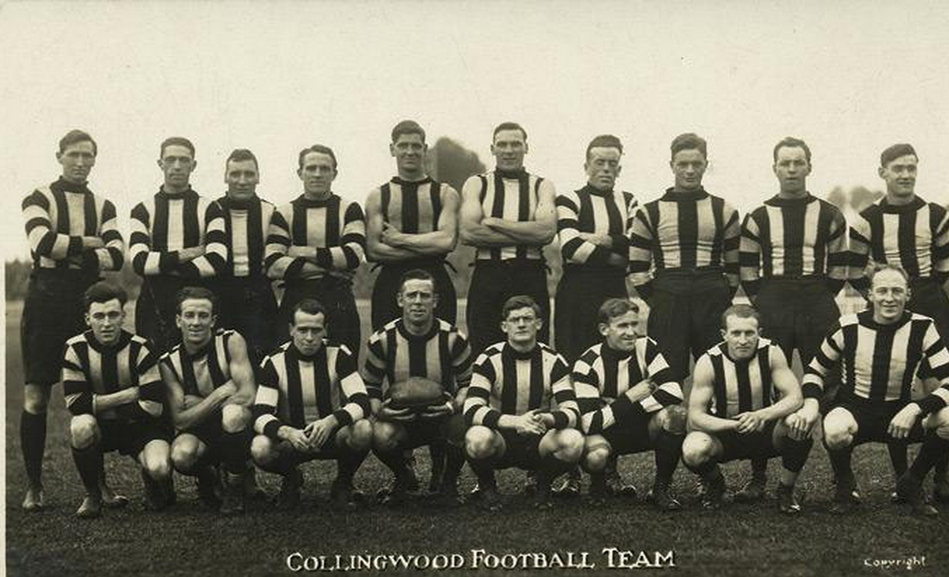 1922 VFL season Collingwood team after 1 of the games